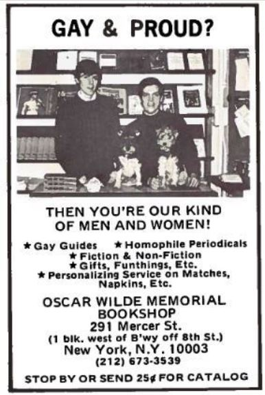 This ad for New York City's Oscar Wilde Memorial Bookshop ran in Queen's Quarterly (QQ) magazine throughout 1968 and 1969. It shows proprietors Fred Sargeant, at left, and Craig Rodwell.